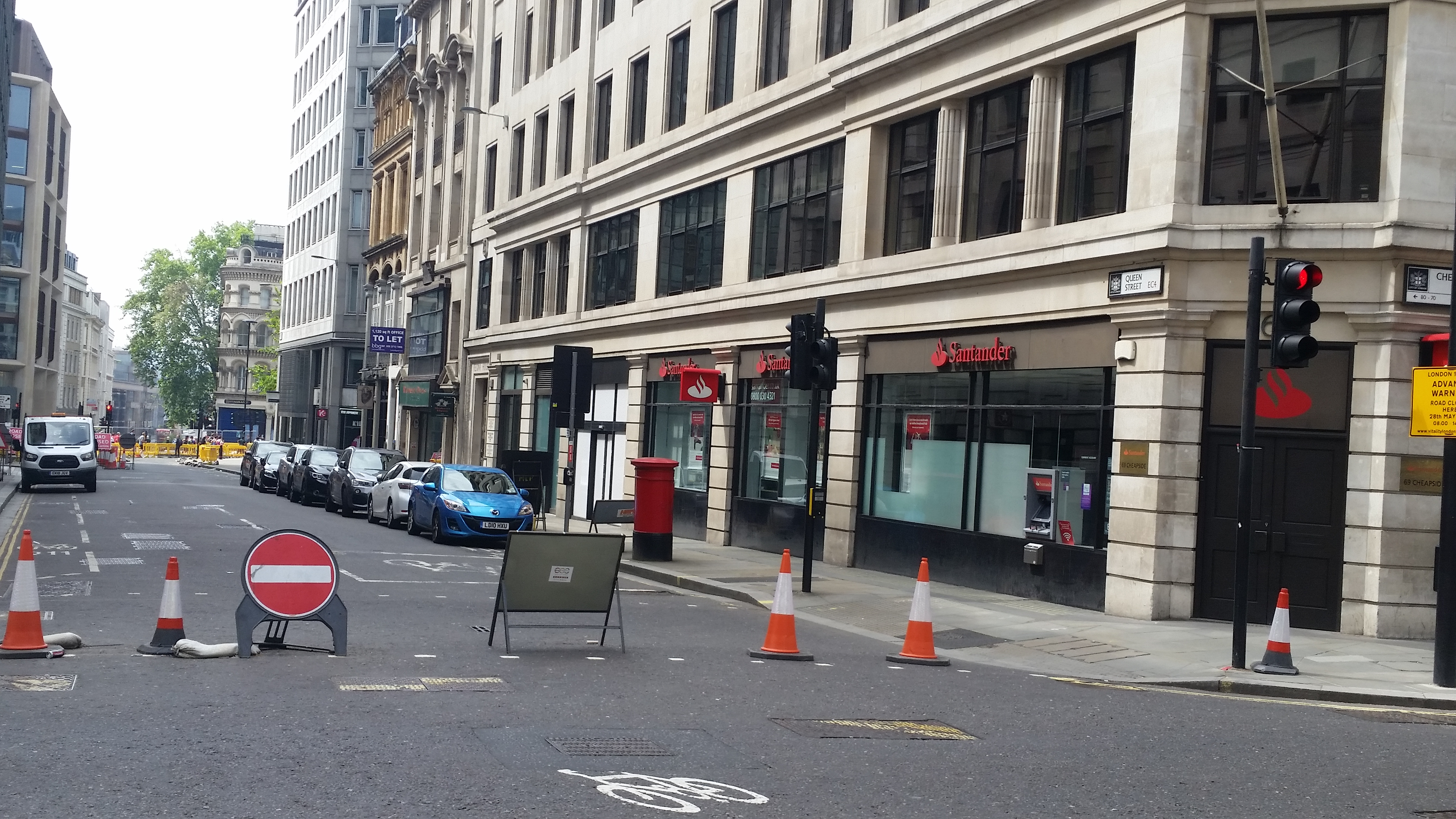 Junction of Queen St and Cheapside, London EC4; in the 14th century, Queens St was called Soper Lane. It was enlarged and renamed after destruction on the Great Fire of London.